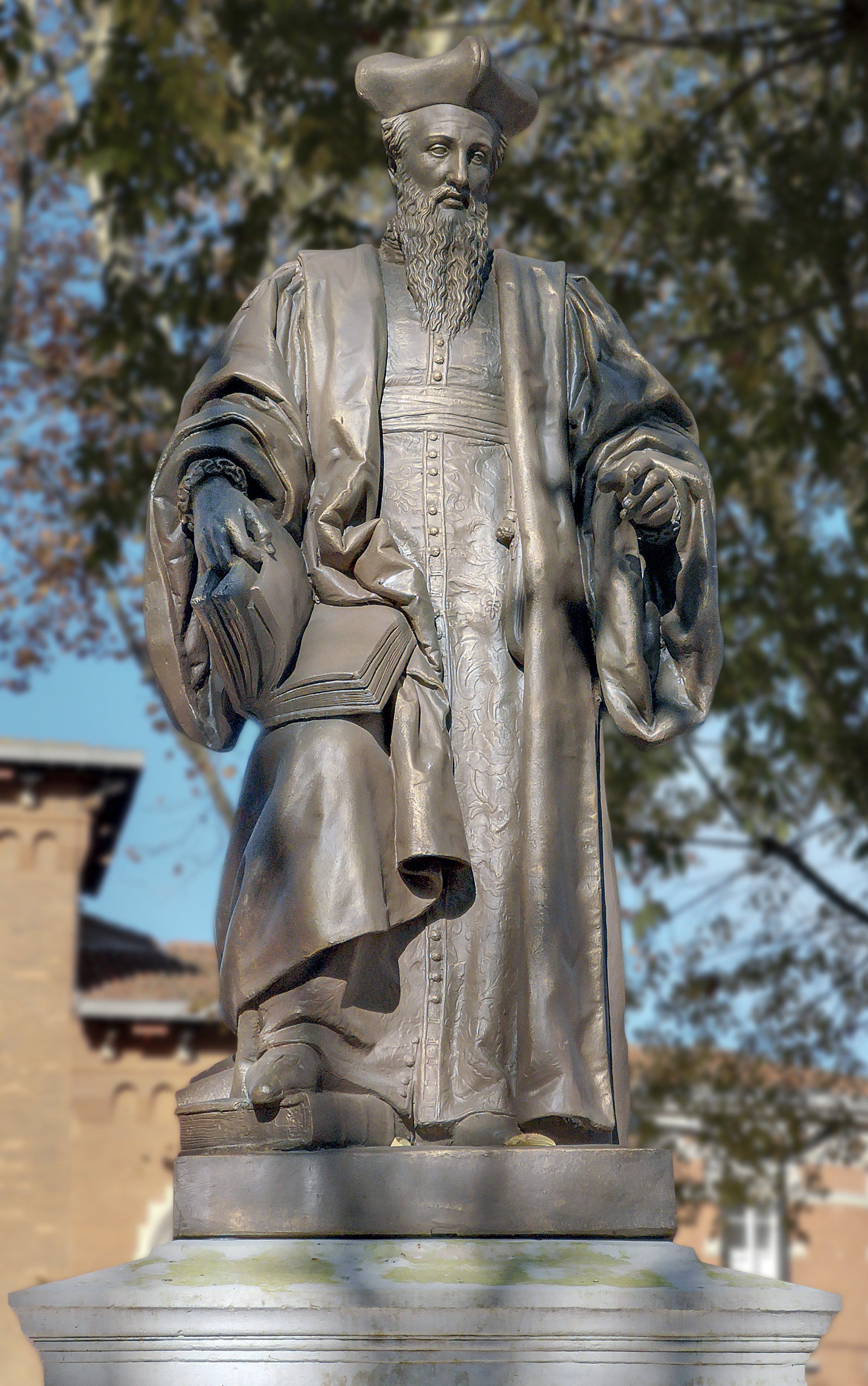 Statue of Jacques Cujas by Achille Valois 1837 - Place du Salin - Toulouse